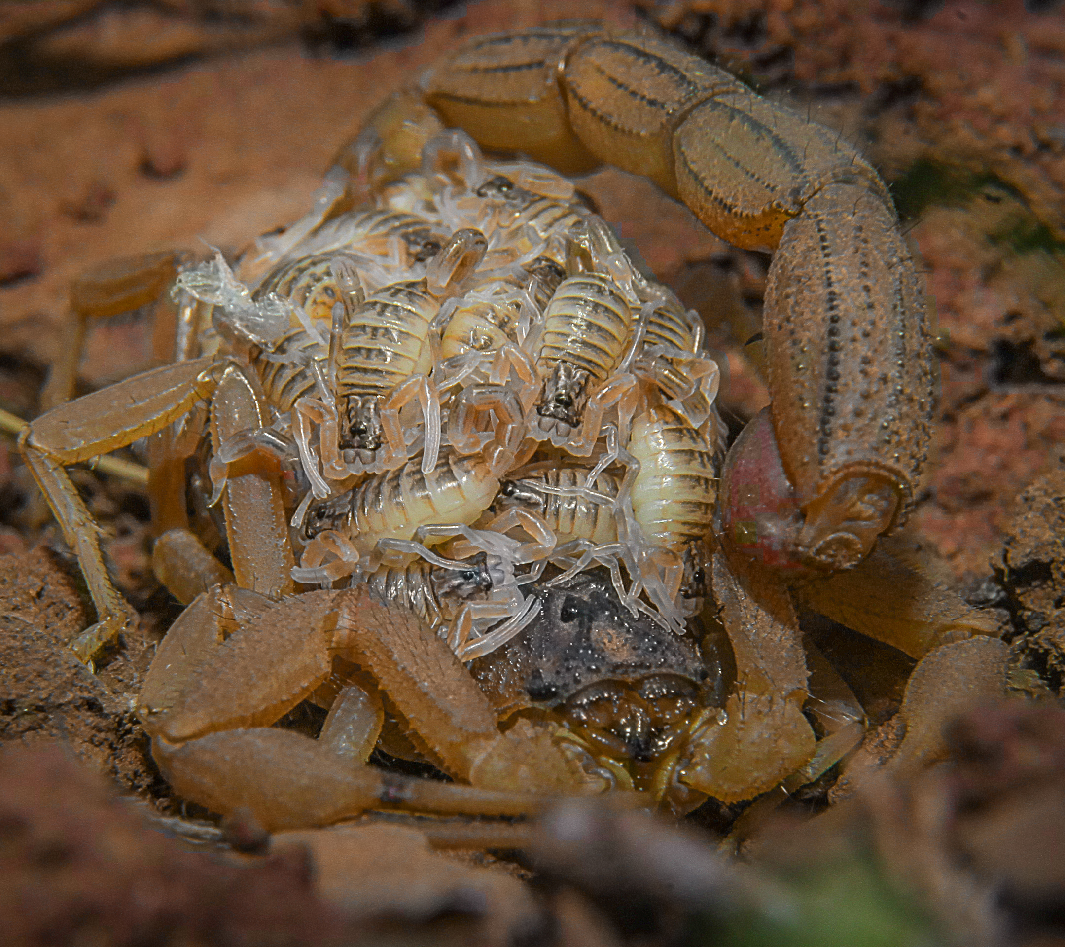 H. tamulus specimen range in size from 50–90 mm. The coloration ranges from dark orange or brightly red-brown through dull brown with darker grey carinae (ridges) and granulation.